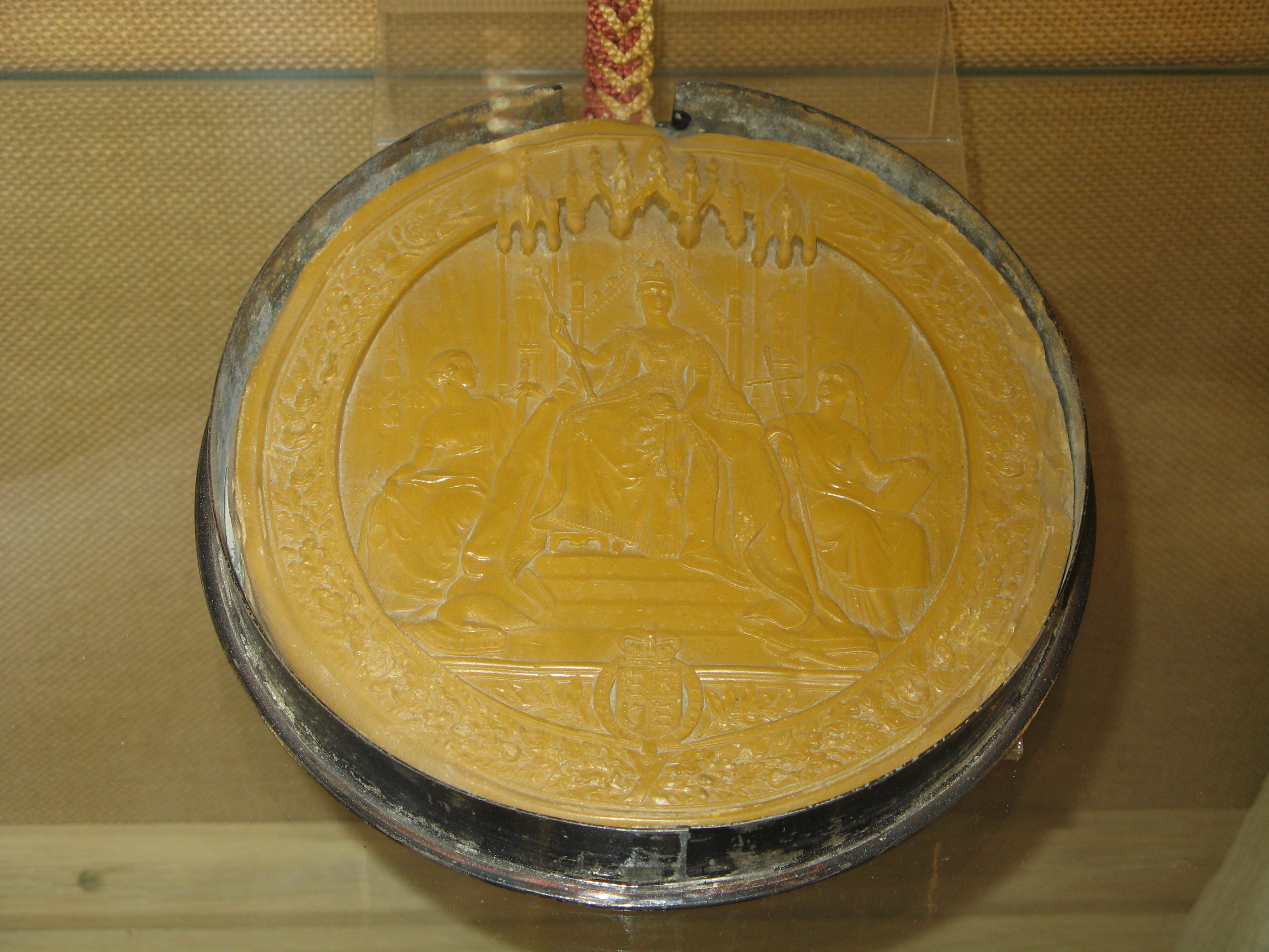 Great Seal of the Realm of Queen Victoria attached to the charter incorporating the Dean and Chapter of the Cathedral of Saint Alban, 1900.